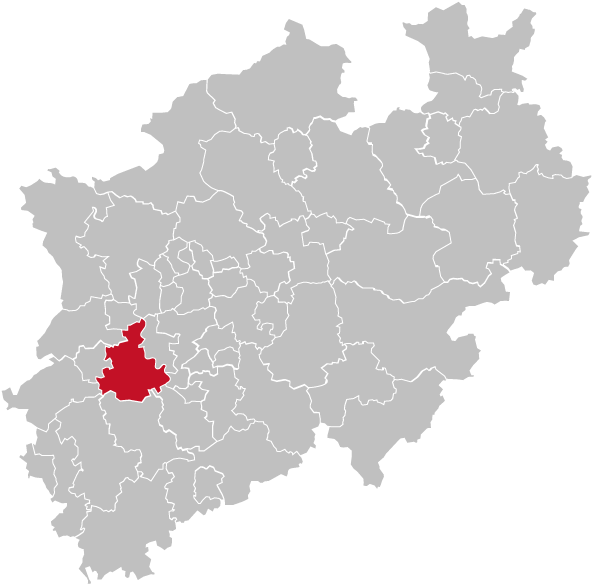 Map of Rhein-Neus Kreis, a District of Northrhine-Westphalia (NRW), Germany. Red/Grey colors match the color scheme of Germany maps and information boxes in German Wikipedia. Kreis is highlighted in red. Former version of map was based upon Image:North rhine w template.png that displayed some districts in the Cologne/Bonn area not correctly.based upon template